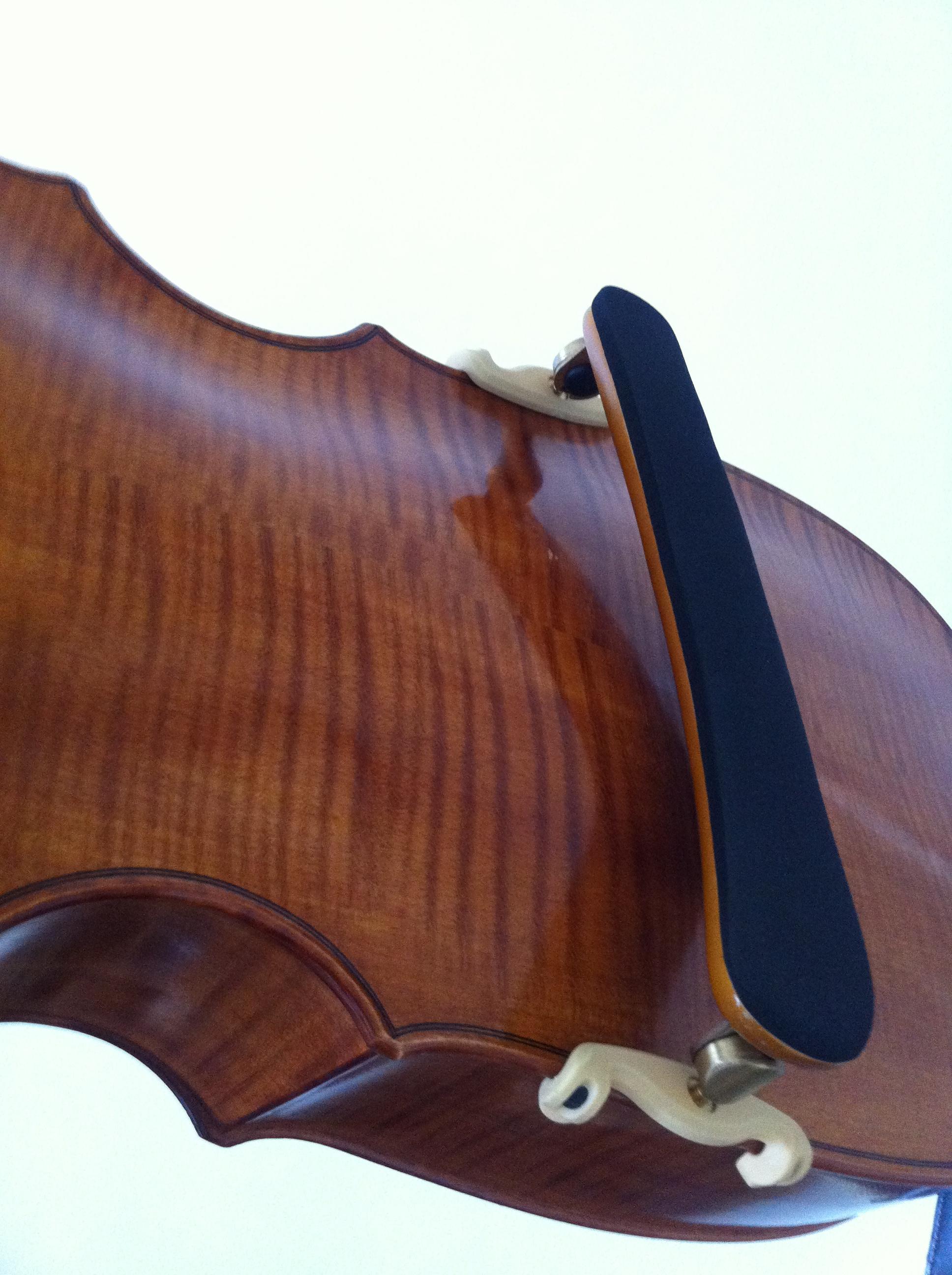 violin bridge on nykelharpa